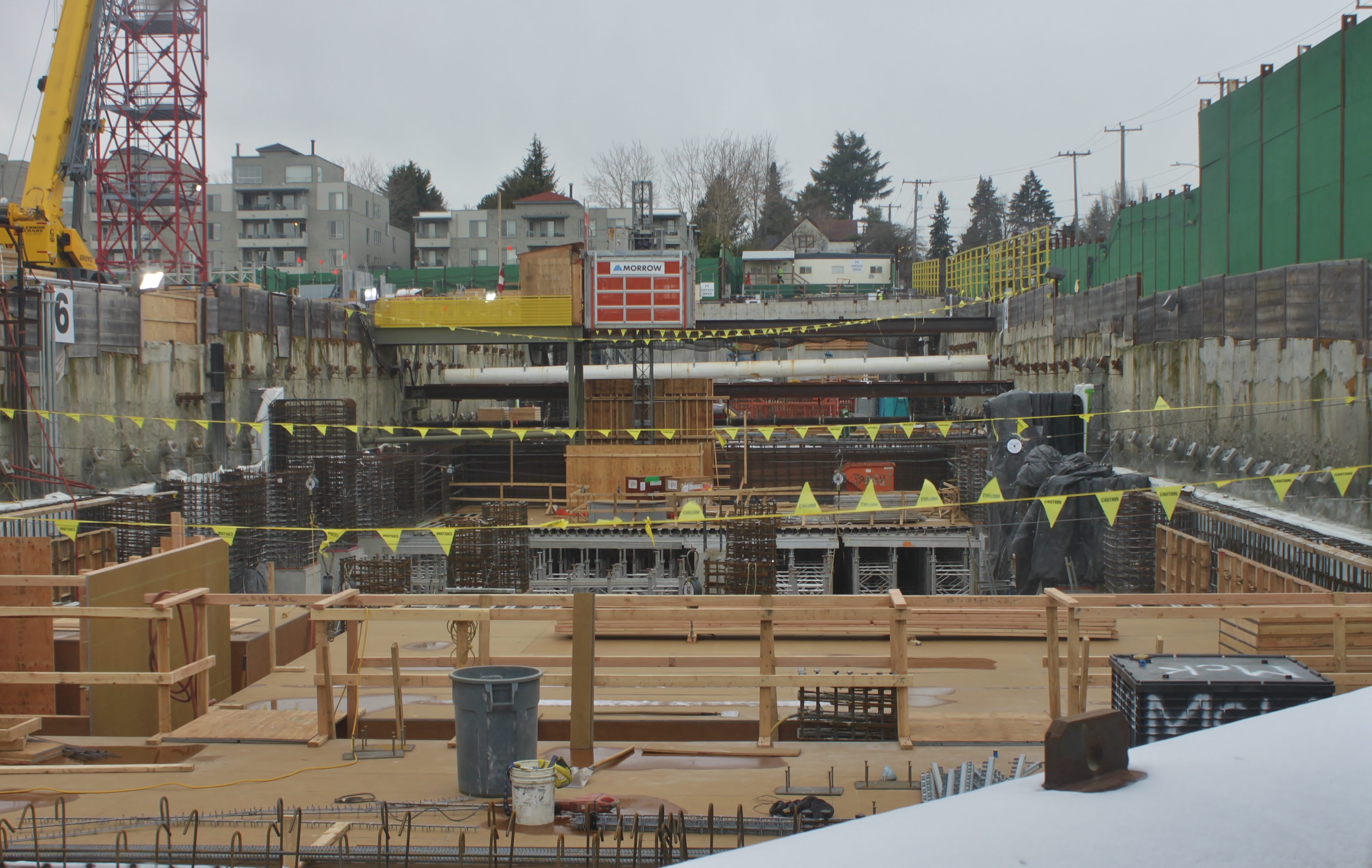 Roosevelt station, a future Link light rail station in Seattle, seen under construction in February 2018.